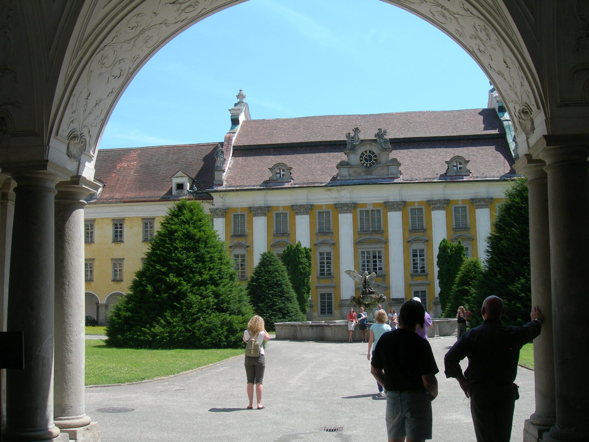 Stift Sankt Florian, courtyard